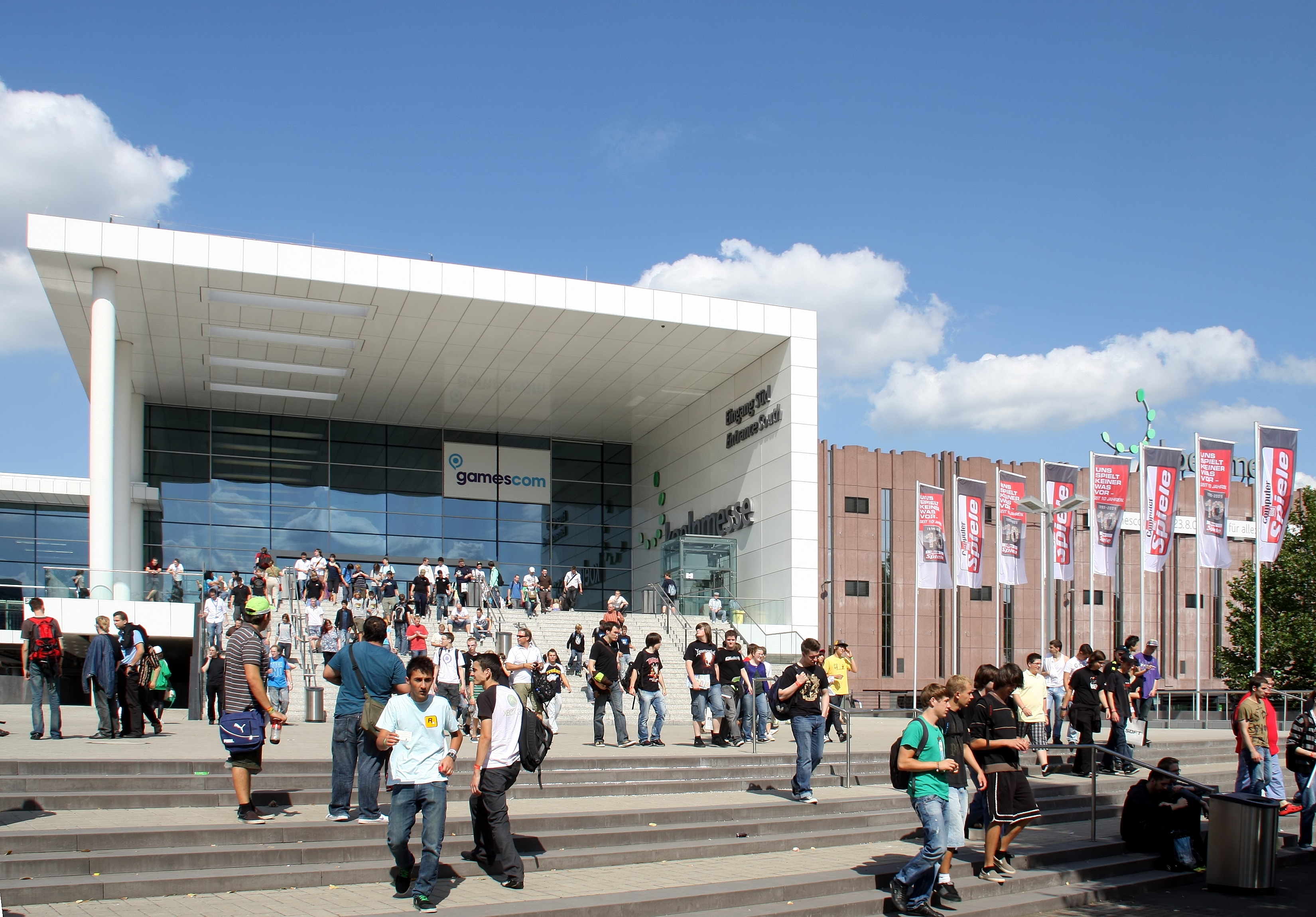 South entrance to the exhibition halls of Koelnmesse during Gamescom 2009